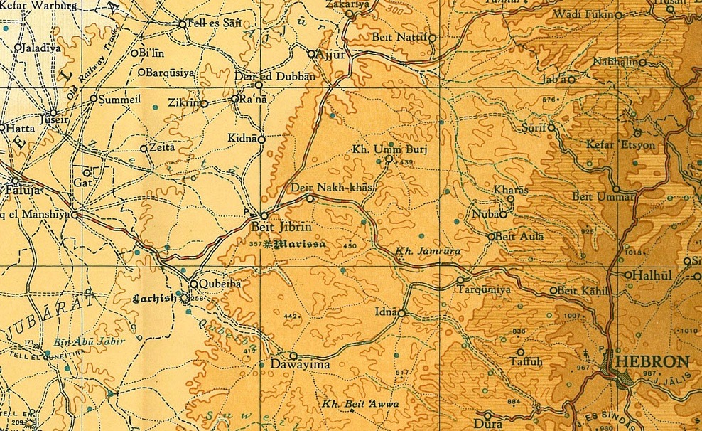 Beit Jibrin 1945 1:250,000